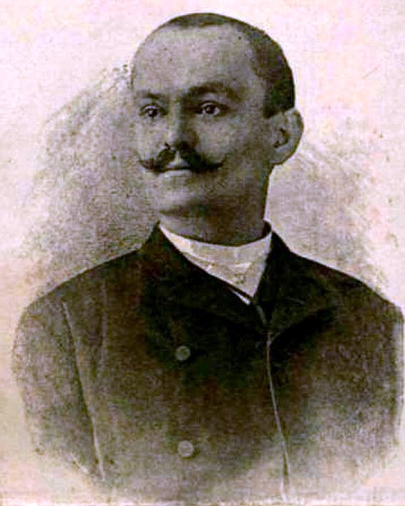 Mihály Szabolcska